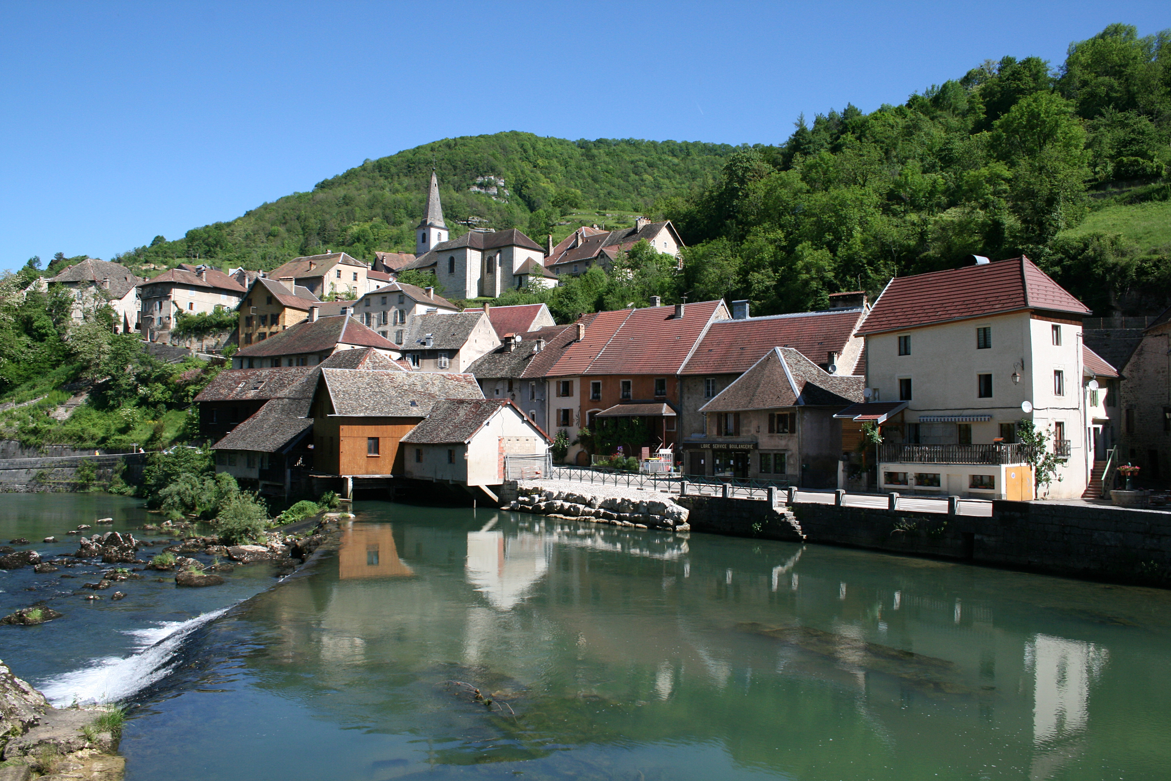 Lods (Doubs - France), the Loue (river) and the village.